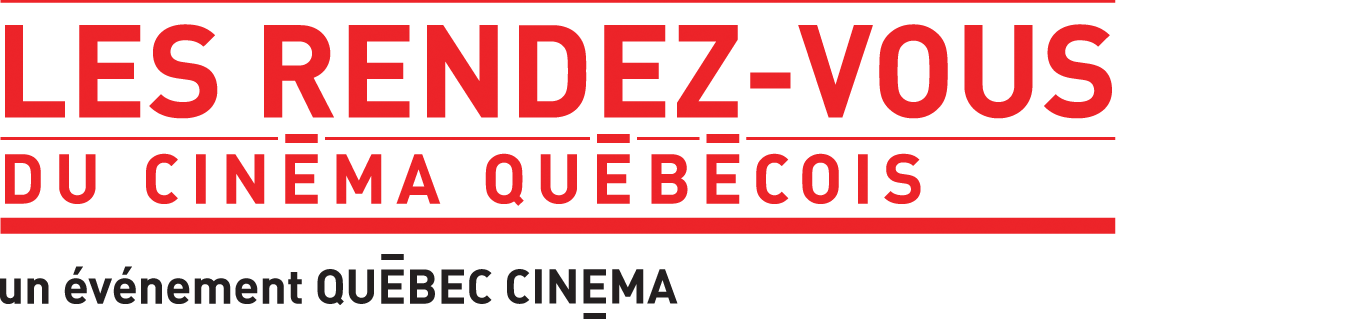 Logo des Rendez-vous du cinéma québécois